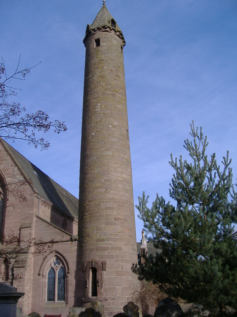 Brechin Round Tower The Round Tower is joined to the Cathedral and is best seen from the rear.